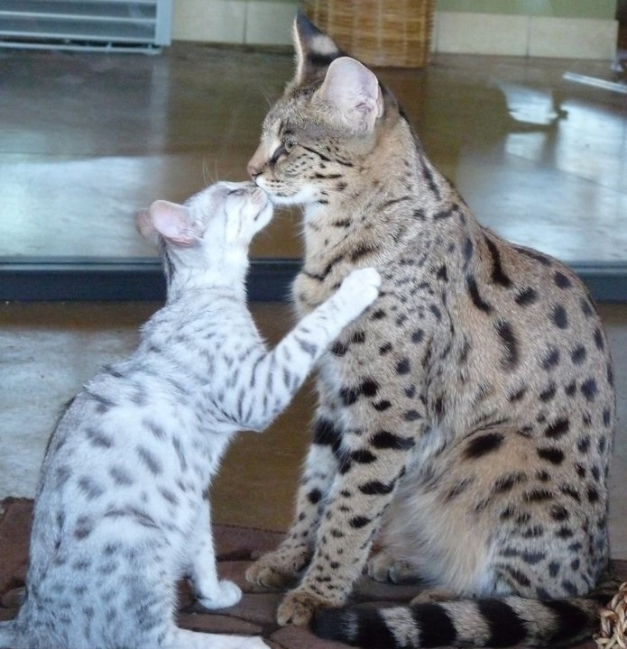 Savannah kittens showing affection